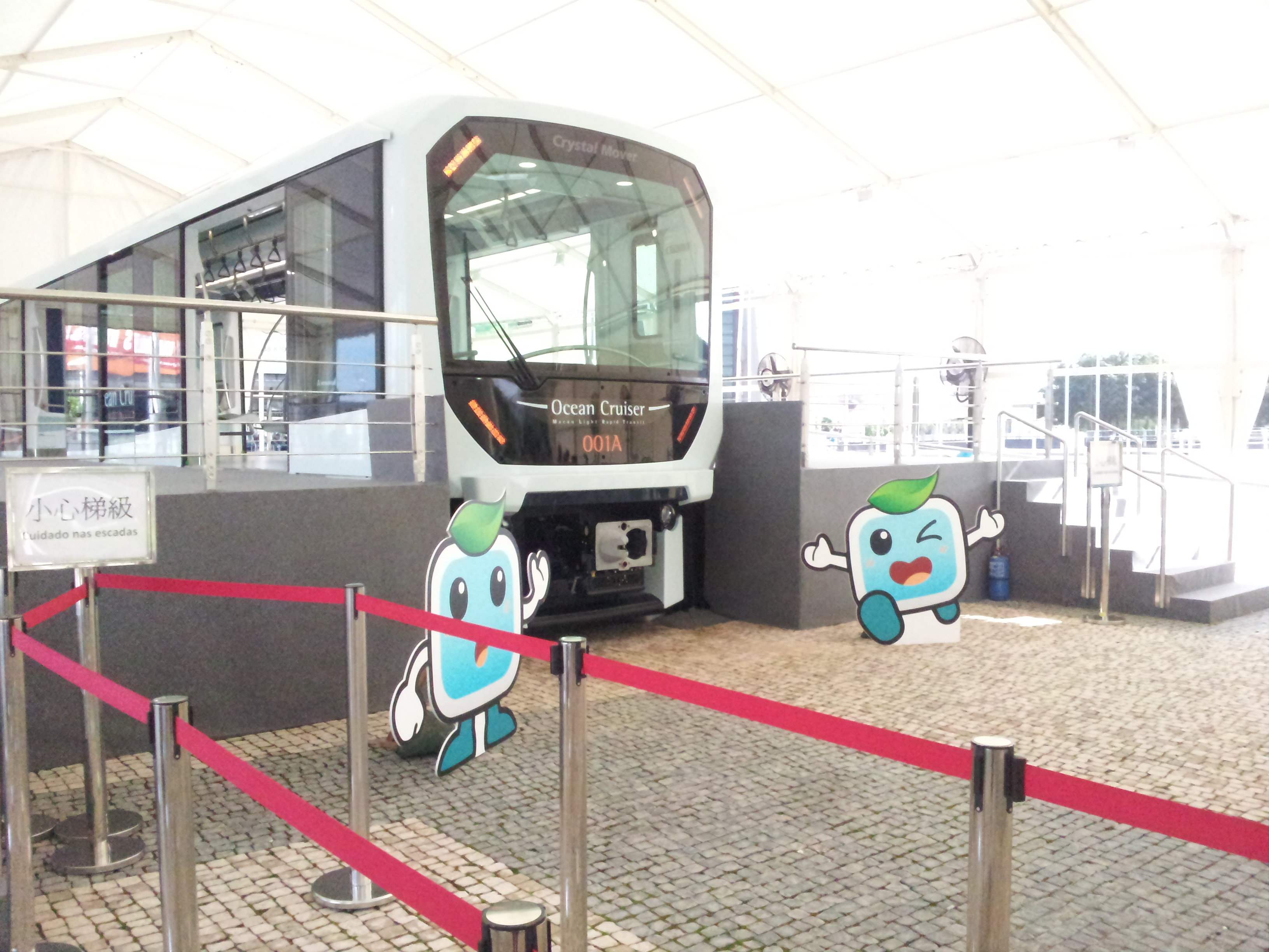 Macau LRT Train（OCEAN CRUISER）